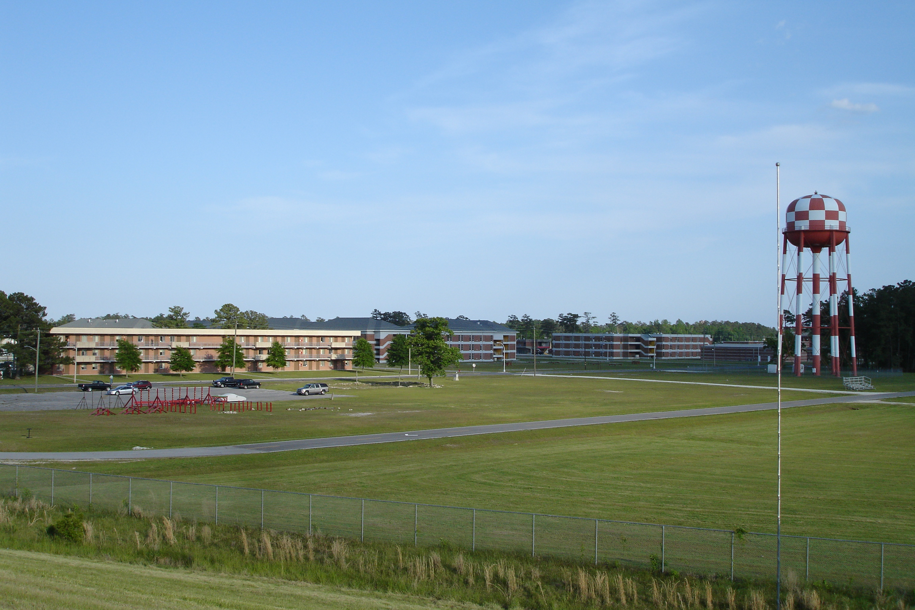 Category:United States Marine Corps images